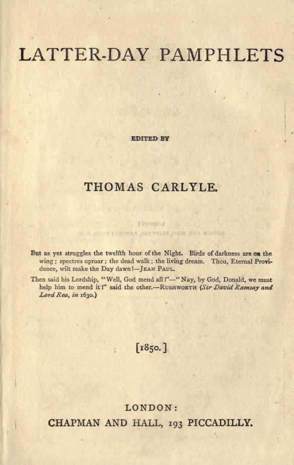 The First Edition of Carlyle's Latter-Day Pamphlets